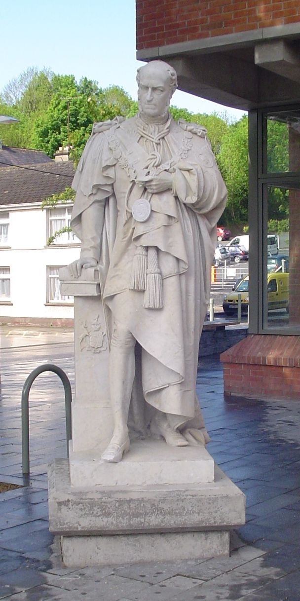 Statue of Henry Maxwell, 7th Baron Farnham in front of Johnston library in Cavan, Co. Cavan, Ireland. Statue was created in the 19th century, was moved in front of the (new) library in 2006.